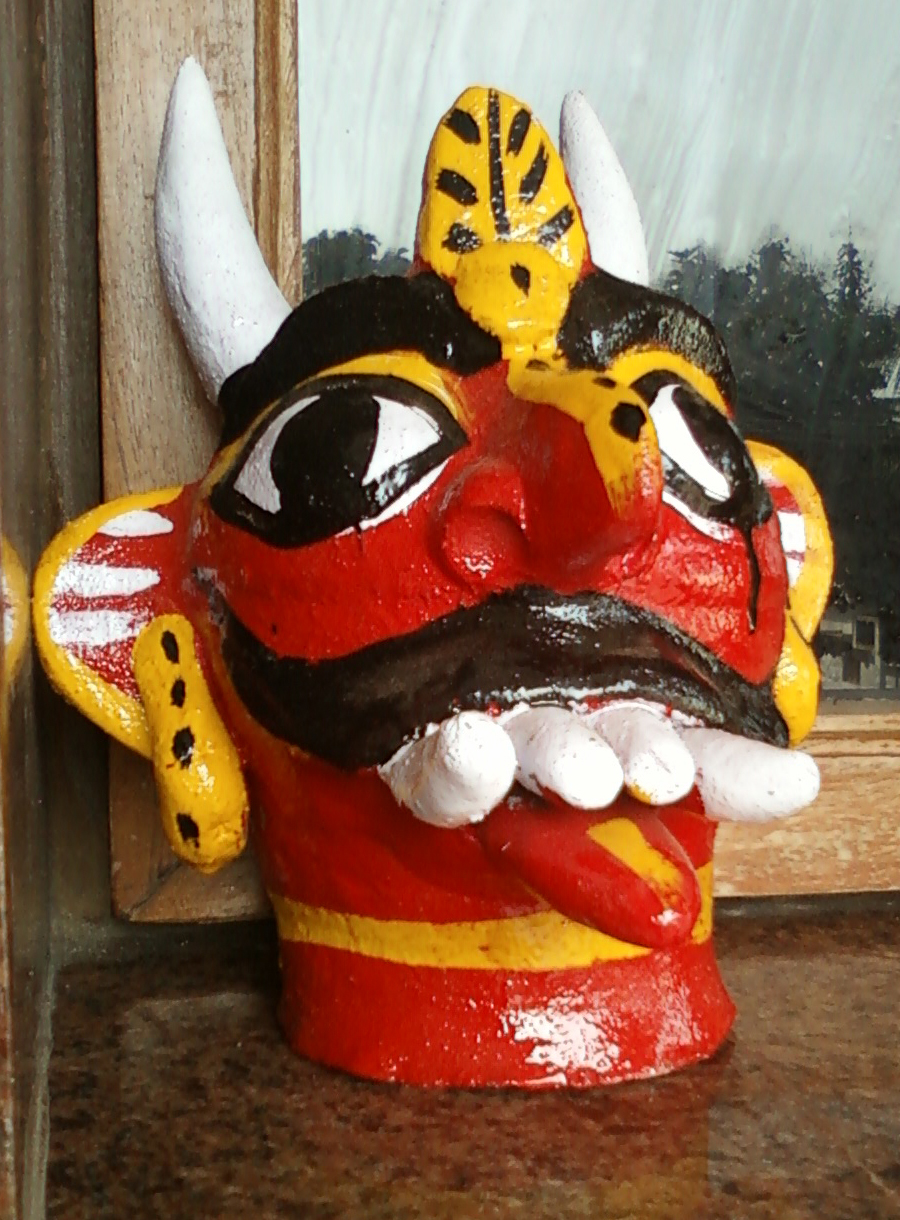 Scareface at Tallavalasa Village, Visakhapatnam